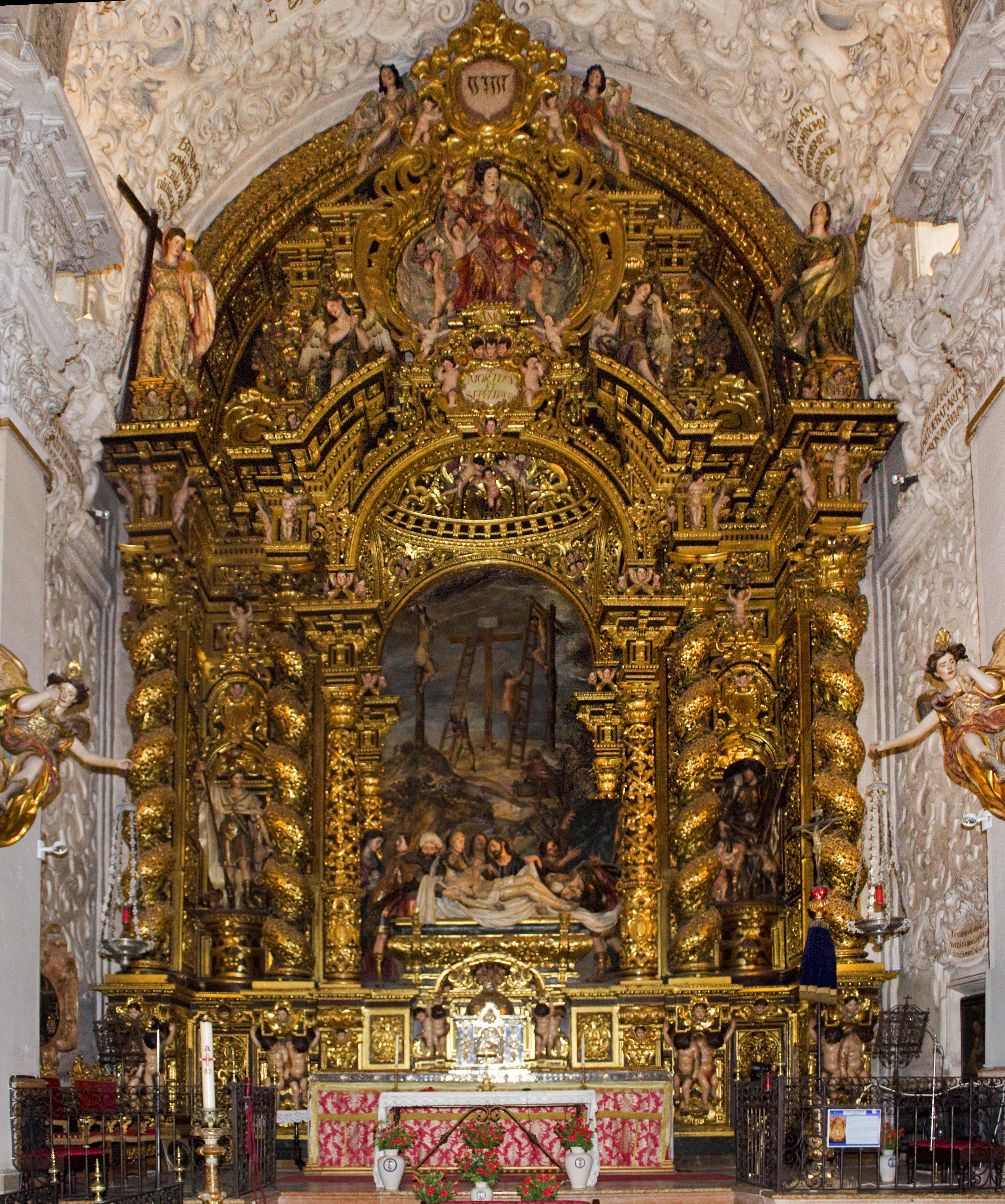 The main altar and the altarpiece are an Bernardo Simón de Pineda work, the scuptures work of Pedro Roldán, the polychromy conducted by Juan de Valdés Leal.